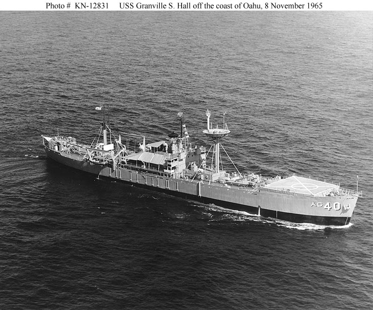 Photo # KN-12831 -- USS Granville S. Hall off the coast of Oahu, 8 November 1965